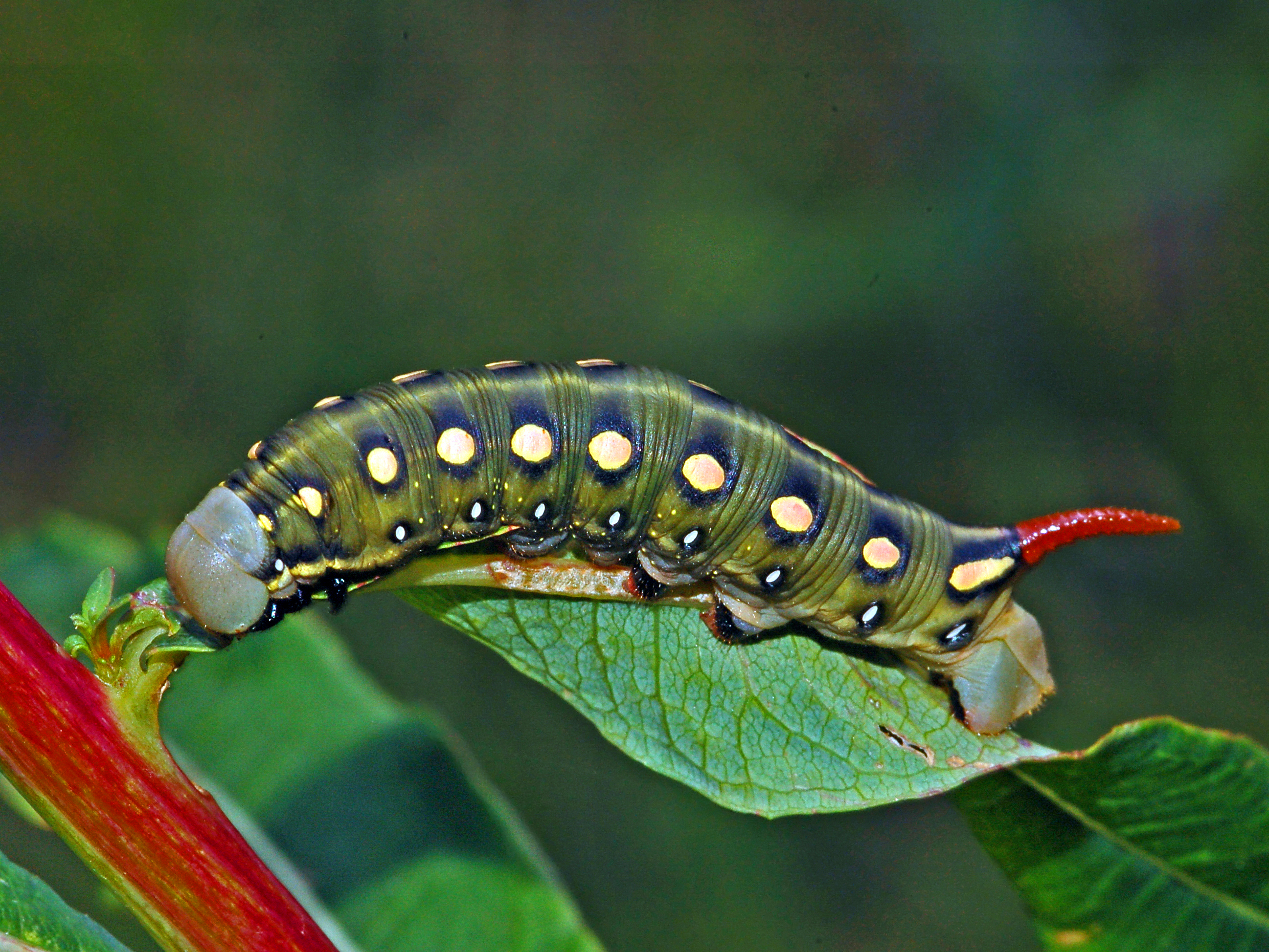 Hyles gallii caterpillar. La Thuile, Aosta, Italy